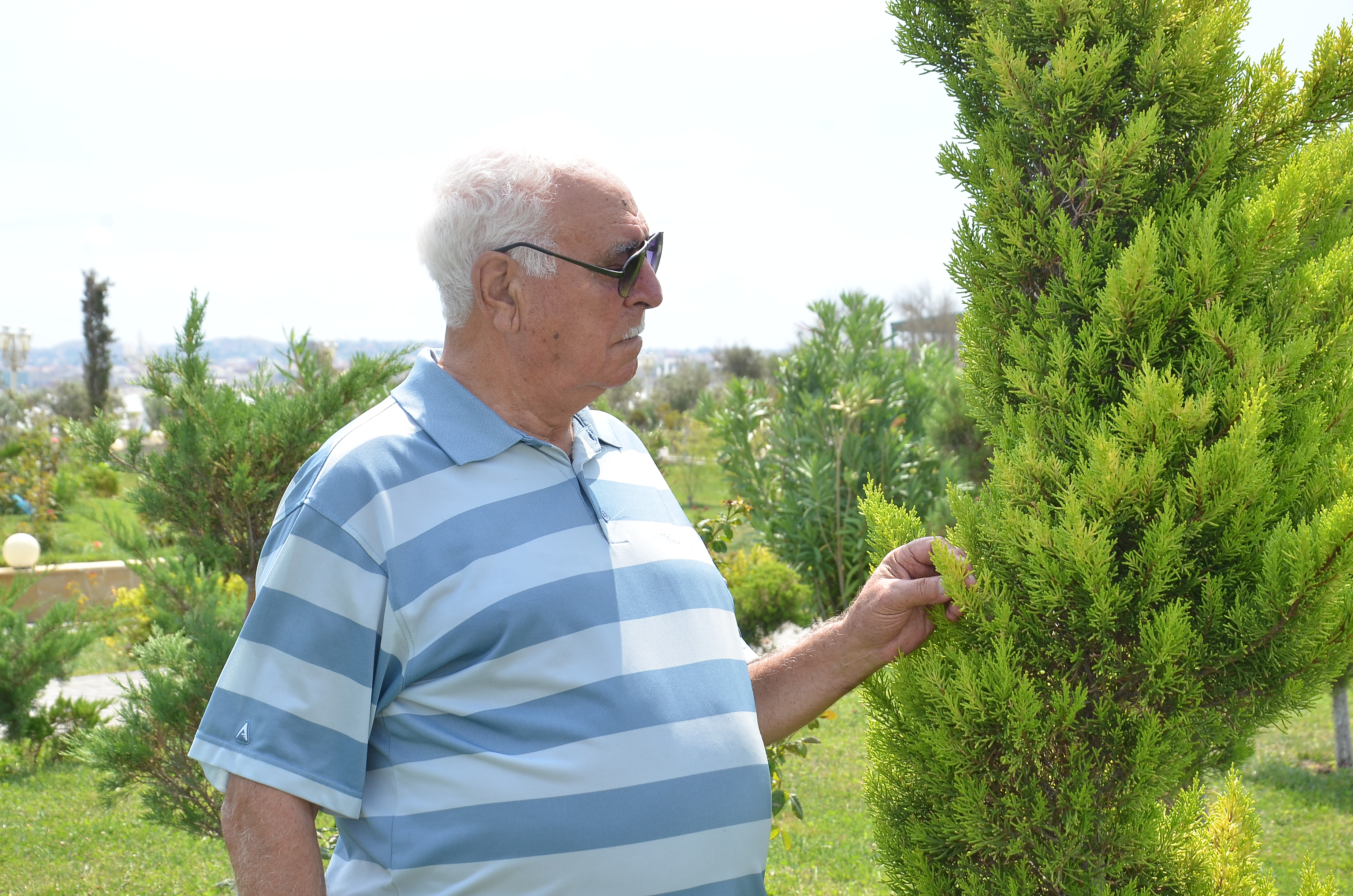 Qabaqcıl Maarif Əlaçısı